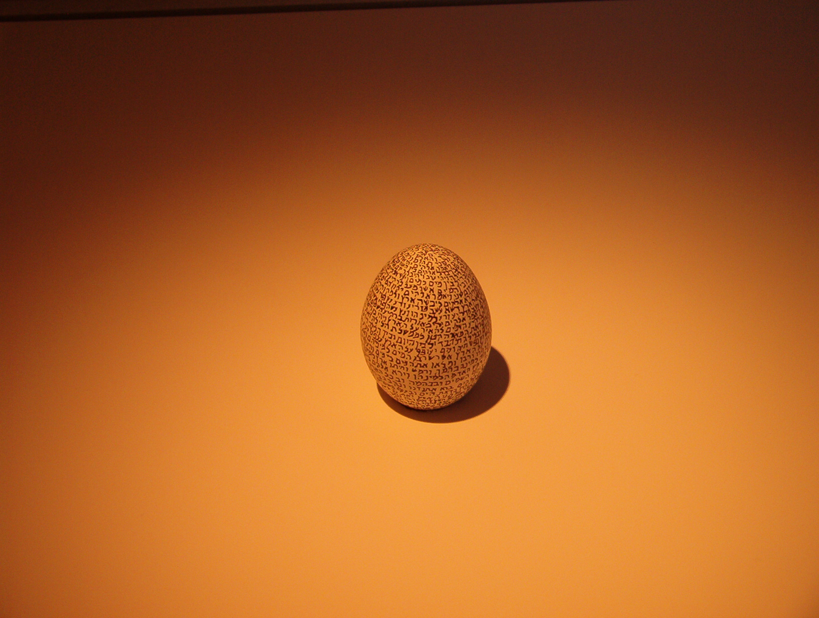 The first chapter of B'reshit, or Genesis, written on an egg, in the Jerusalem museum.